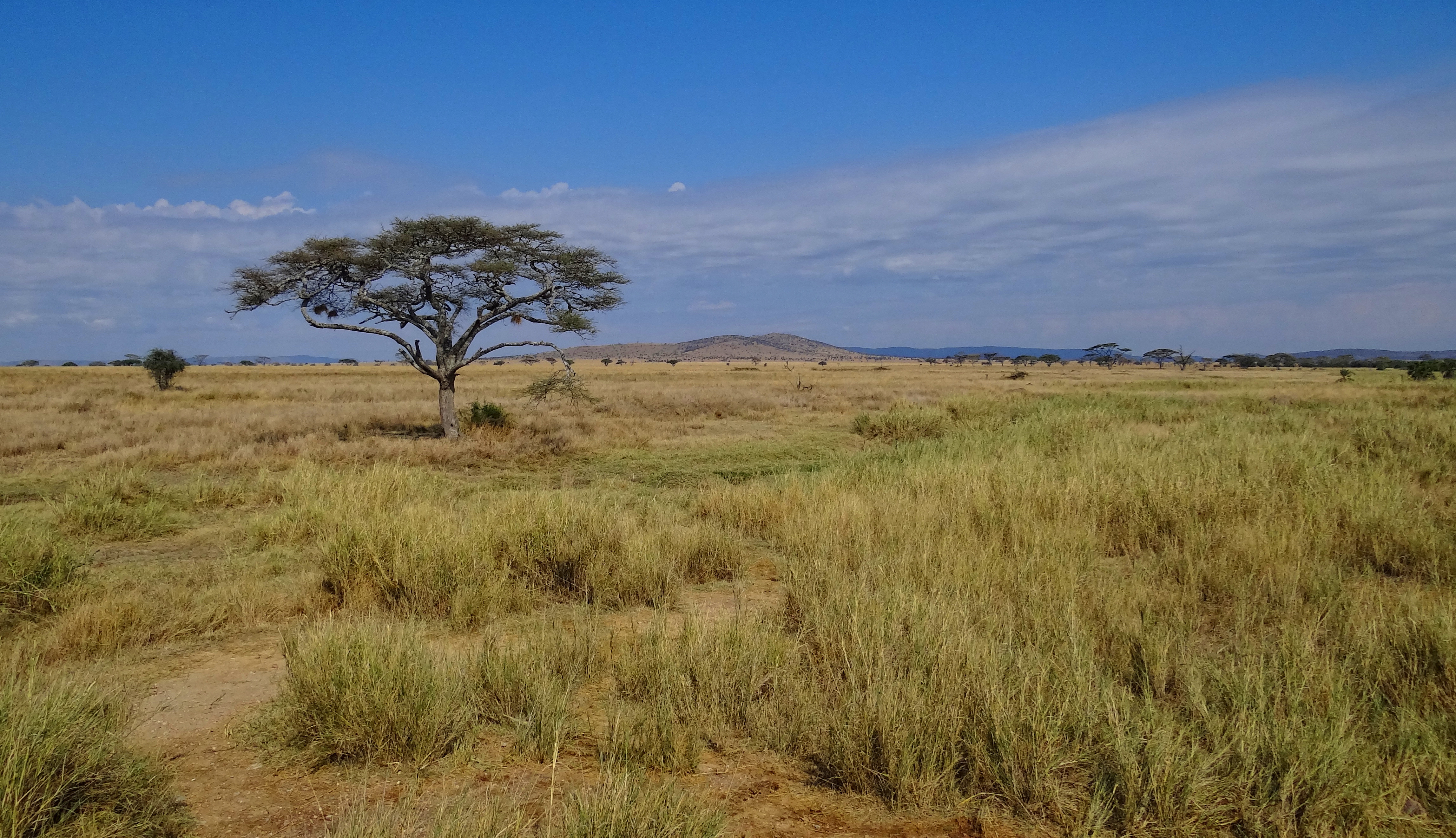 A fairly typical example of the scenery in Serengeti National Park in western Tanzania. The plains are wide and full of grass, with trees, mainly acacias, dotted around the landscape.